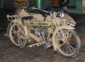 Beamish Museum, County Durham, England. This is a 1922 Matchless Model H 998cc motorcycle & sidecar combination (reg. ES 4509), seen at night outside the Beamish Motor and Cycle Works, on the south side of the main street in Town.